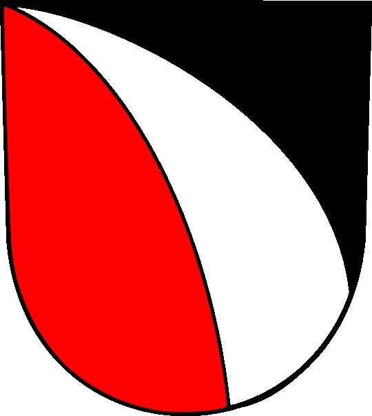 Coat of arms of Walchsing near Vilshofen in Netherbavaria.